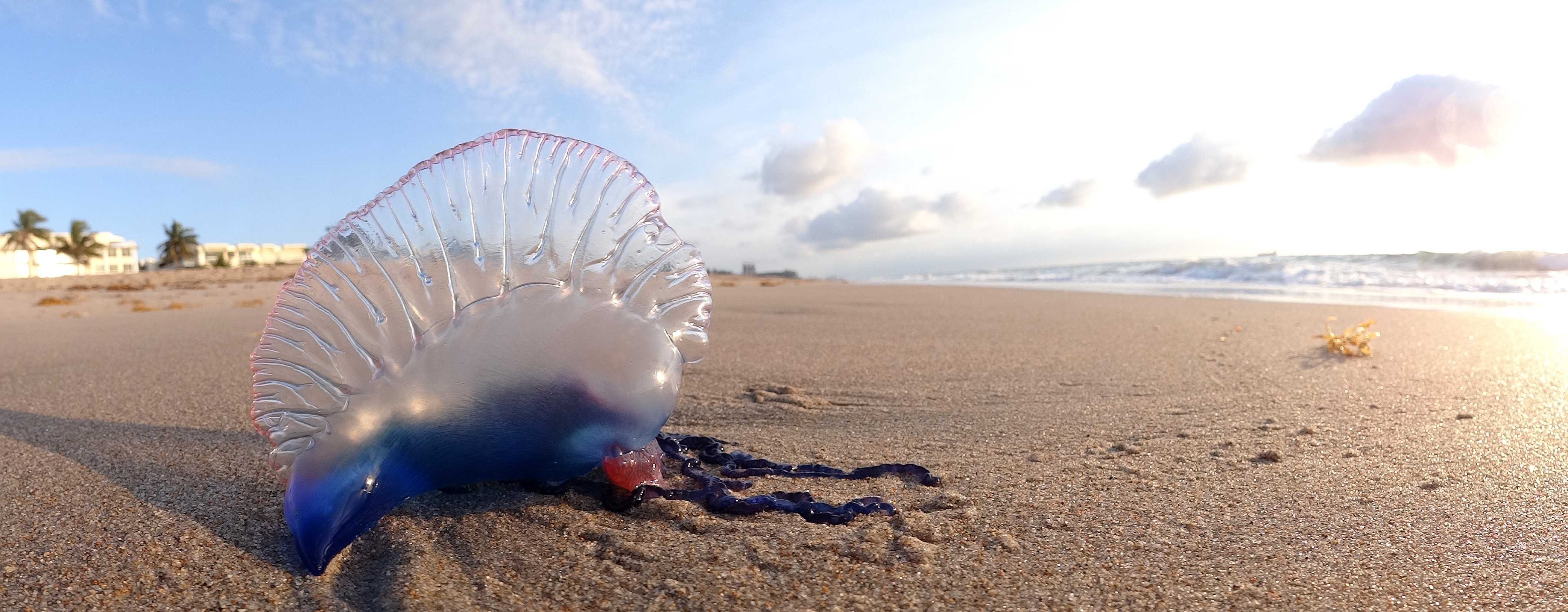 Portuguese Man o' War at Palm Beach FL. For the location of the photo, please refer to its original public sharing site